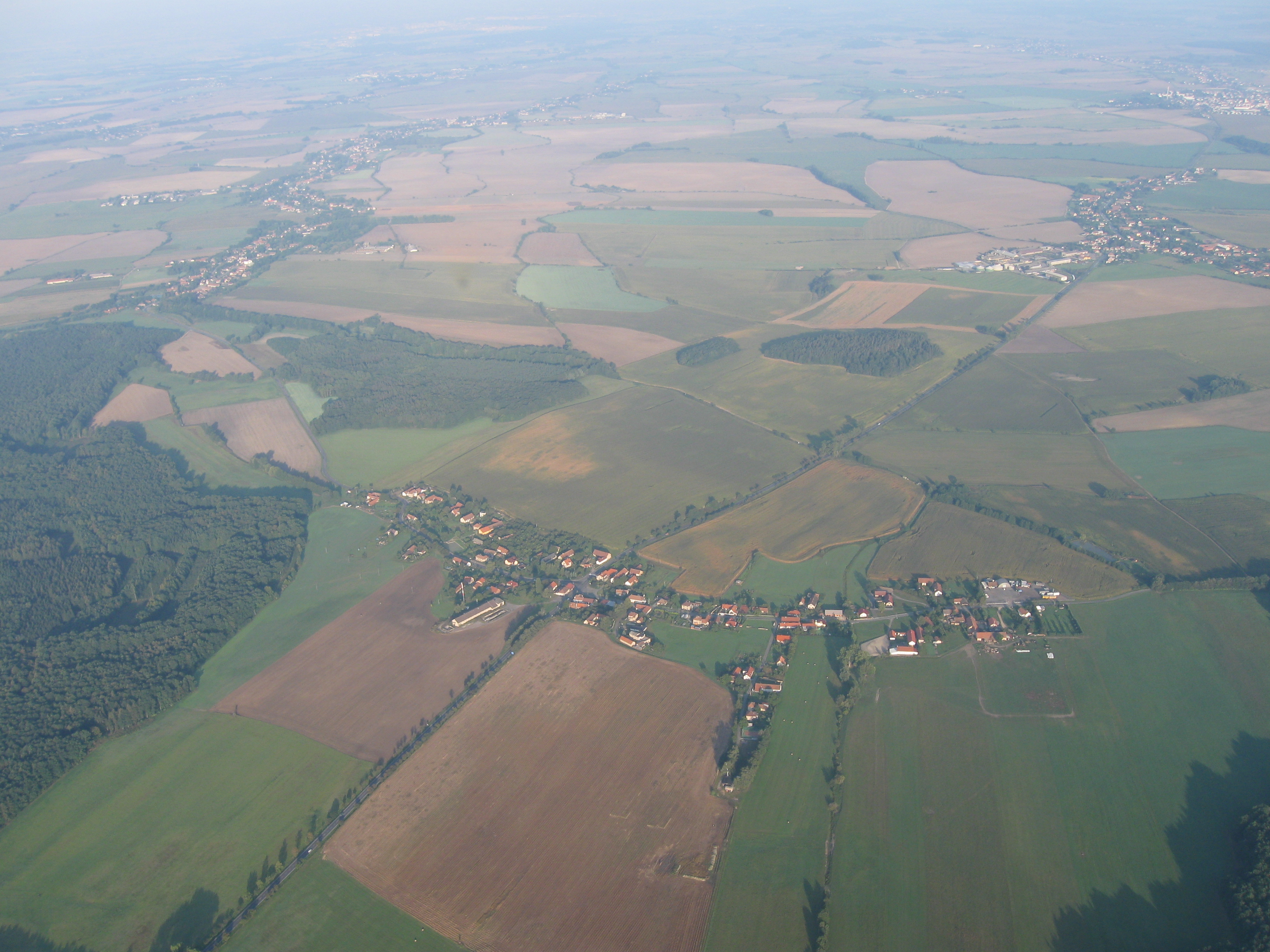 Vysoká u Holic